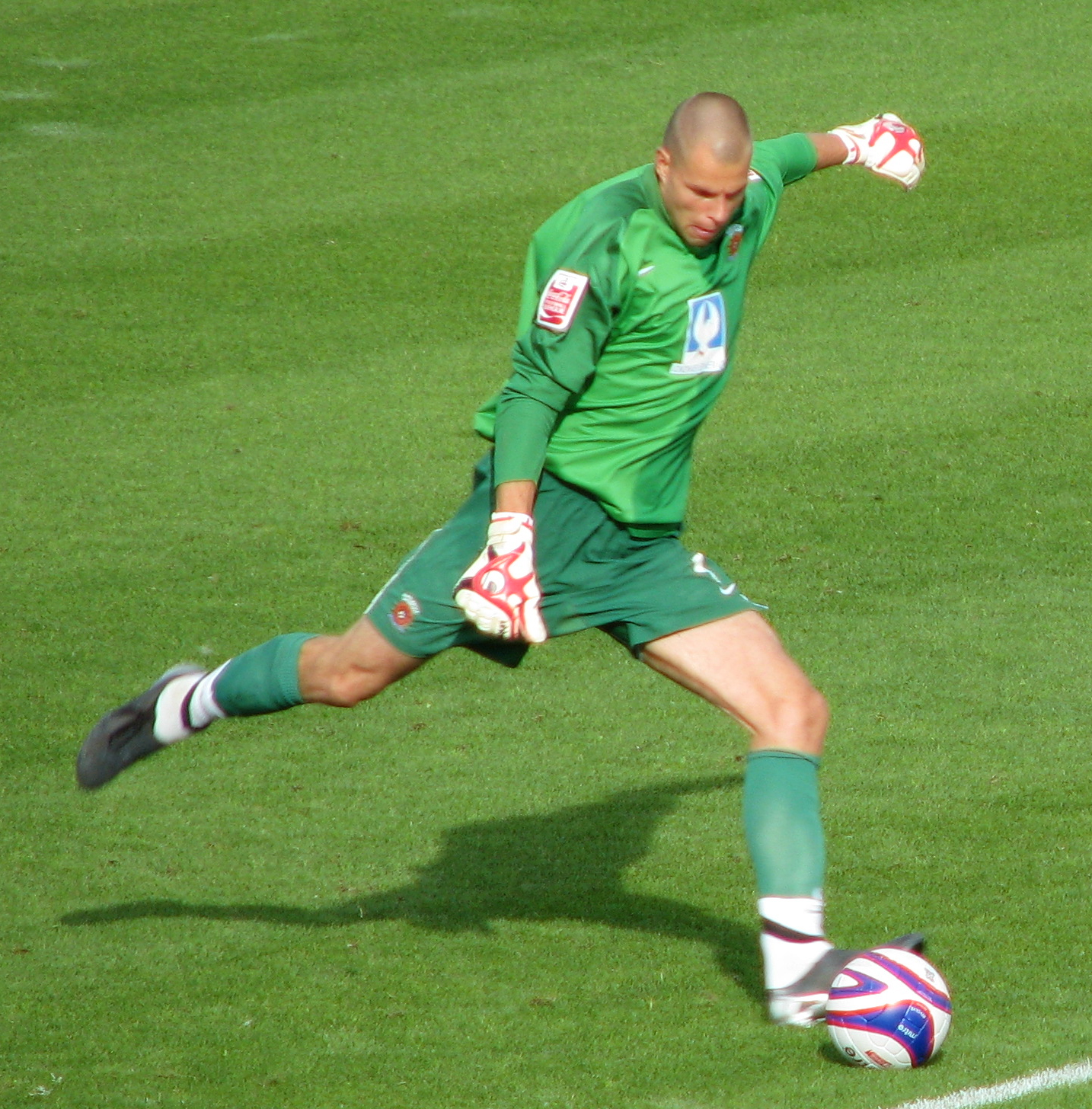 Hartlepool United Goalie Jan Budtz, Hartlepool United v. Swindon Town in Victoria Park, Hartlepool, 15. September 2007